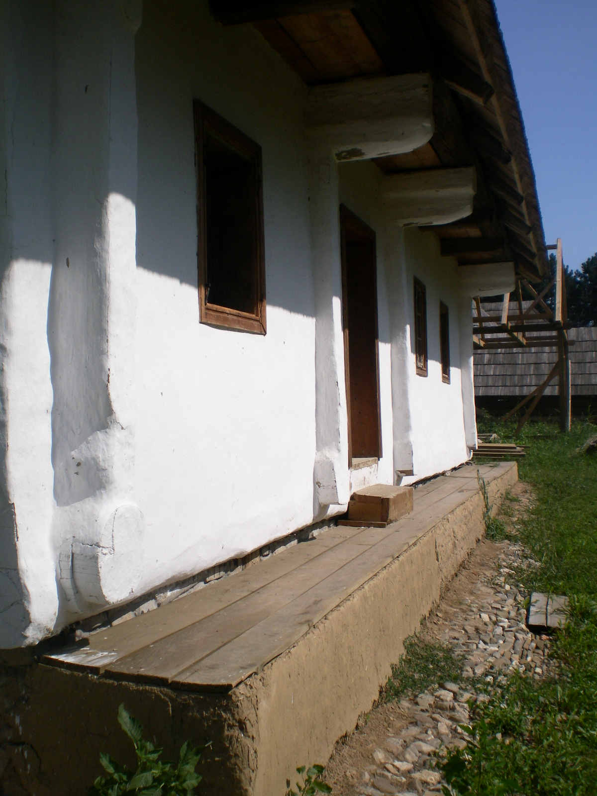 Bukovina Village Museum - The Volovăţ House, Rădăuţi ethnographic area.